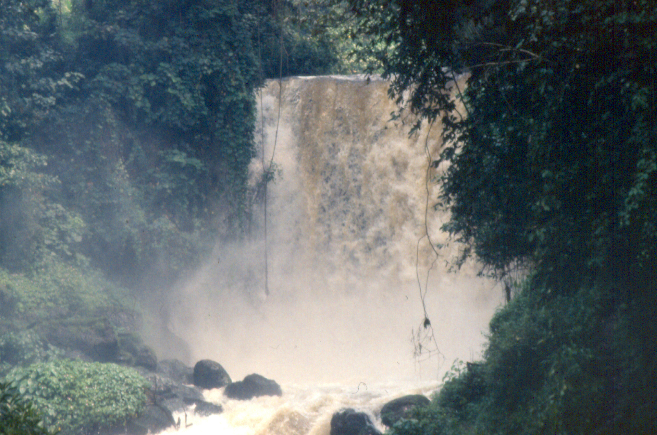 Waterfall in the Virunga National Park. The Virunga National Park (formerly Albert National Park) lies from the Virunga Mountains, to the Rwenzori Mountains, in the eastern Democratic Republic of Congo, bordering Volcanoes National Park in Rwanda and Rwenzori Mountains National Park in Uganda.